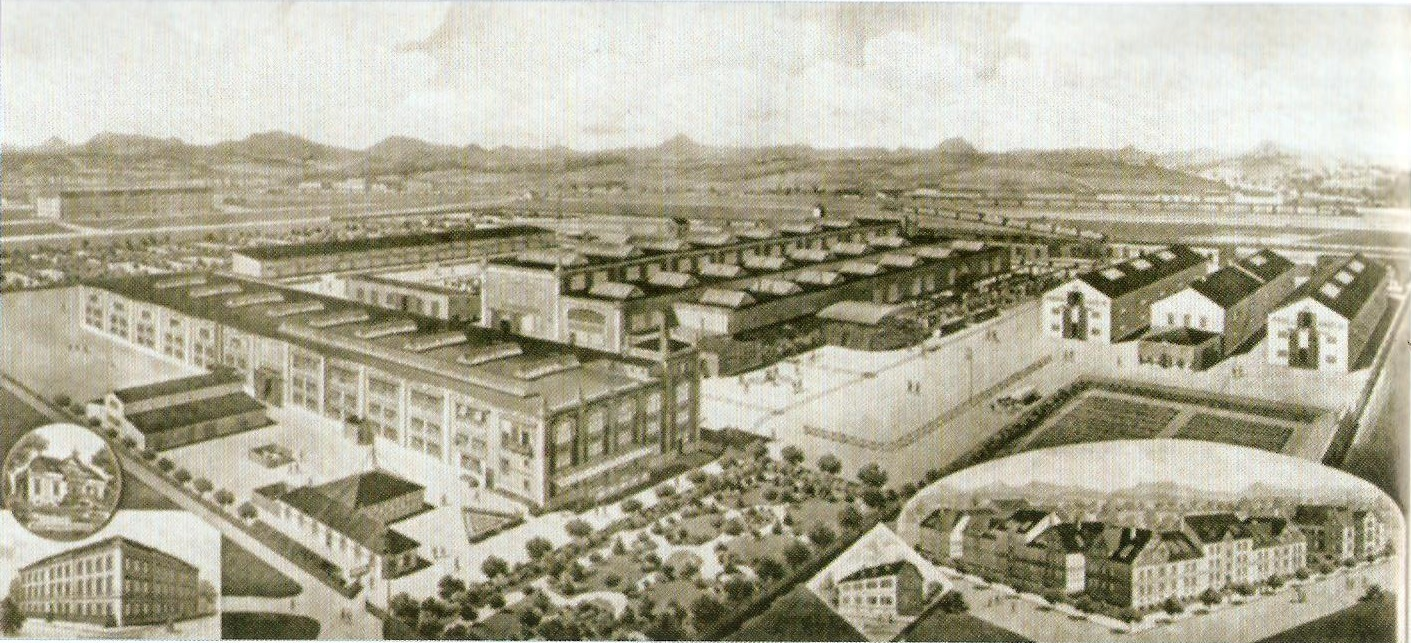 Voith St. Pölten, 1912